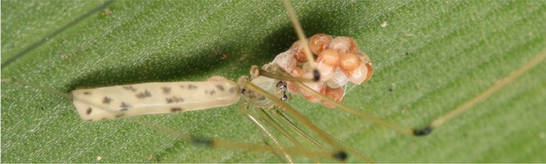 Panjange camiguin female with parasitized eggsac, from Camiguin Island, Philippines